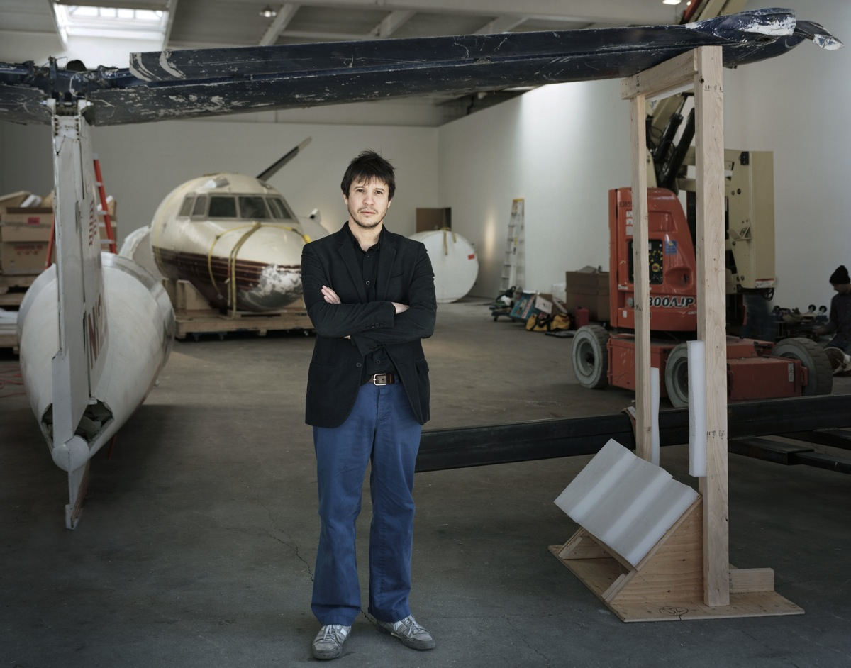 Adel Abdessemed installing his solo exhibition RIO at David Zwirner, New York in 2009